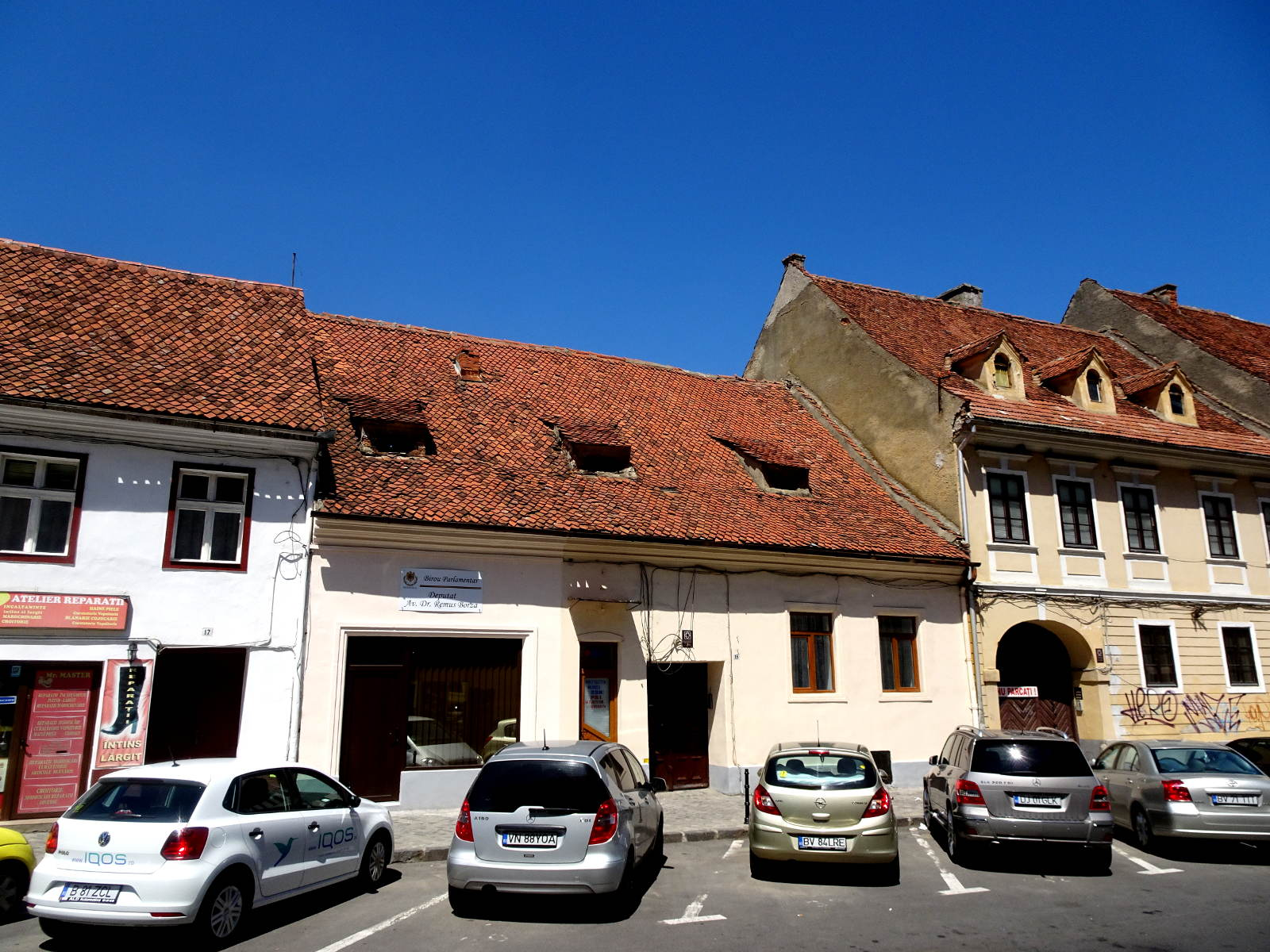 House in Bălcescu street, Brașov